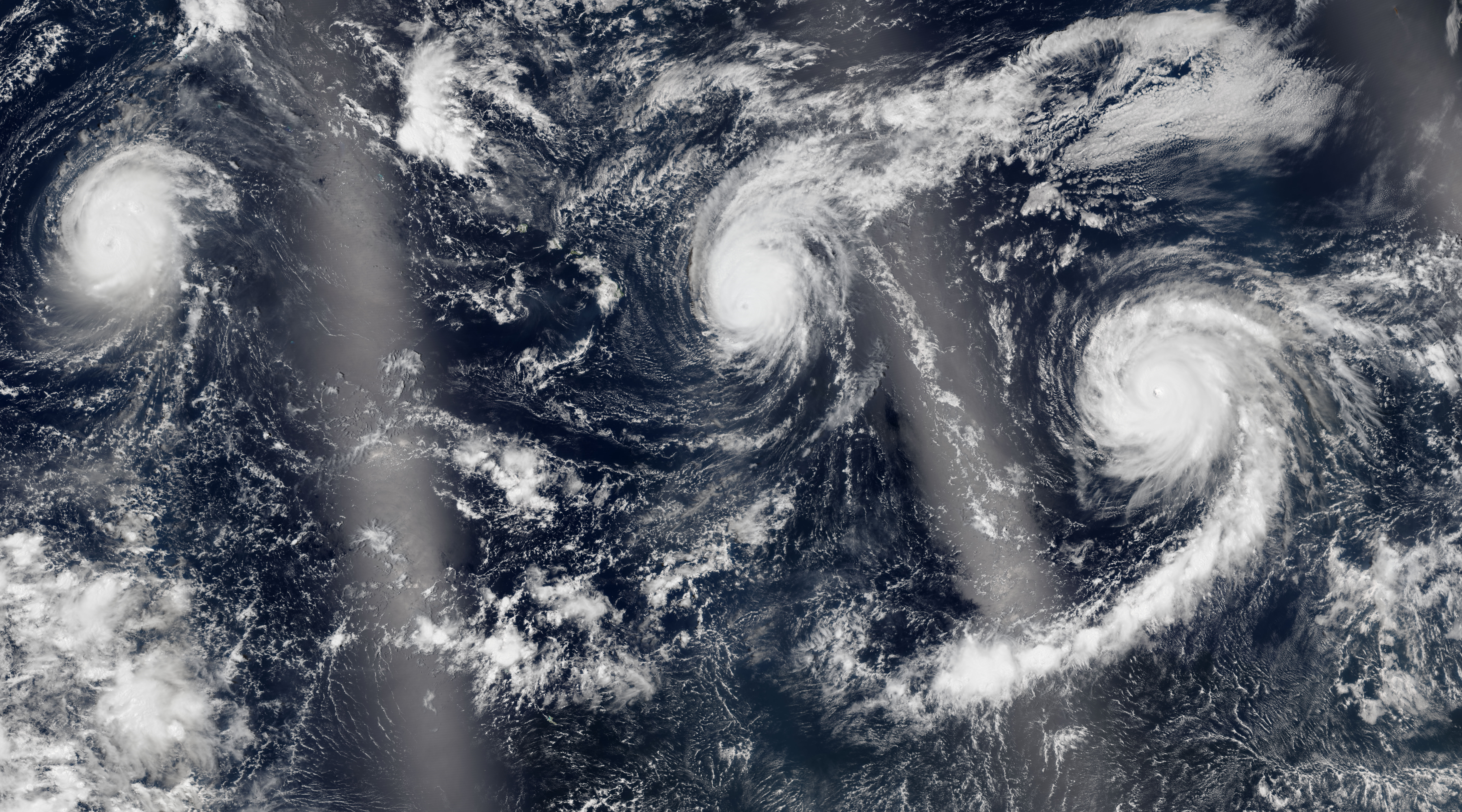 Hurricanes traversing the Pacific Ocean are often solitary storms. Occasionally they show up in pairs. But according to meteorologists, August 2015 marked the first time in recorded history that three Category 4 storms simultaneously paraded over the central and eastern Pacific. This natural-color image is also a mosaic, acquired with VIIRS between about 11 a.m. and 2 p.m. Hawaii Standard Time on August 30 (21:00 and 00:00 Universal Time on August 30-31).